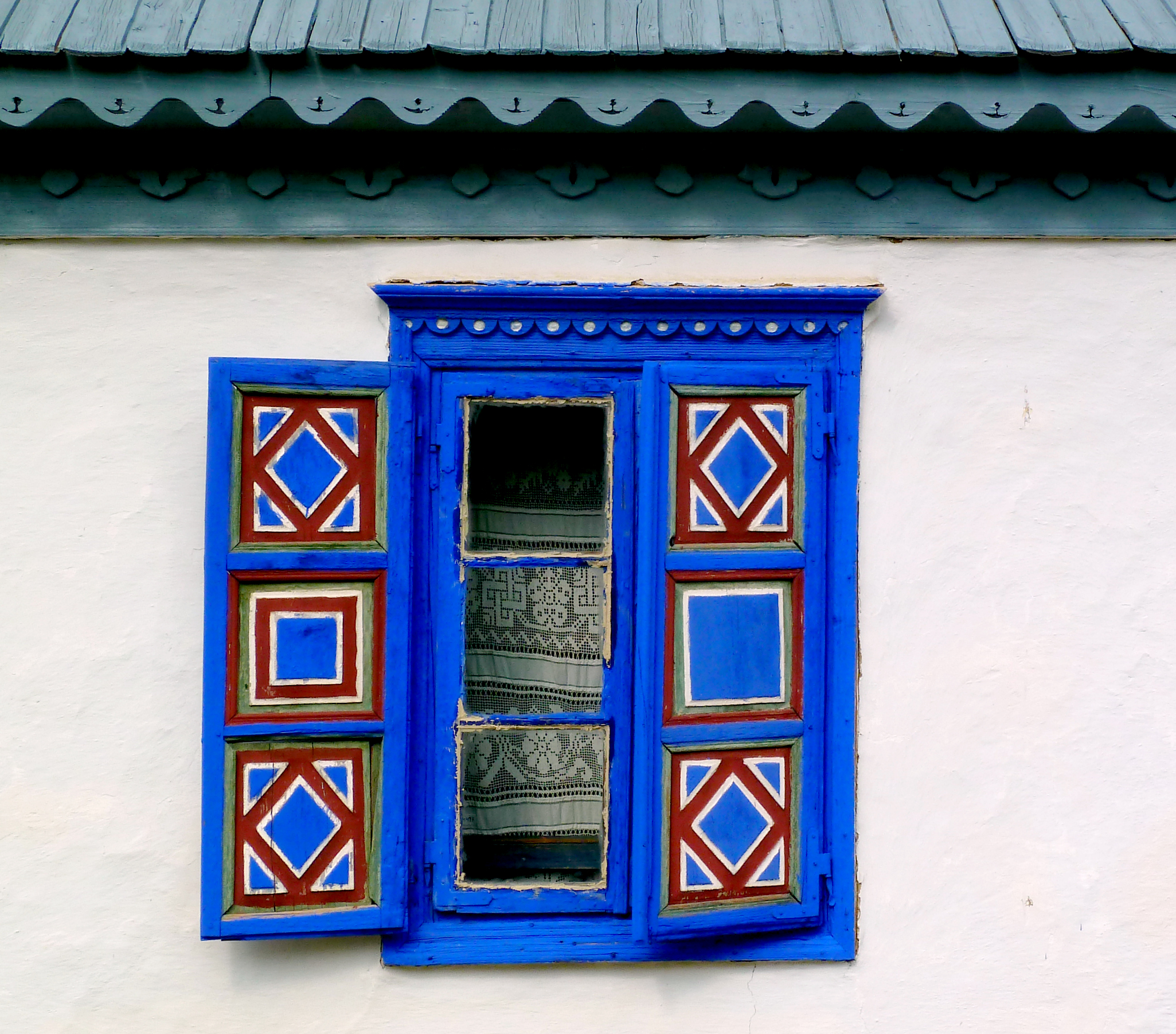 Farm house window, Village Museum, Bucharest